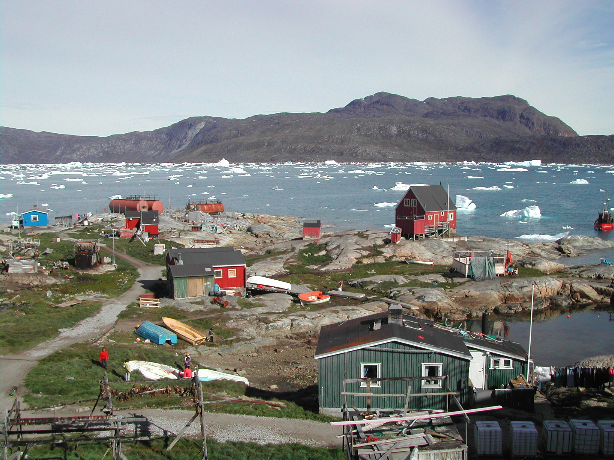 Qeqertaq is a village on a small island at the entrance to Torssukatak Fjord